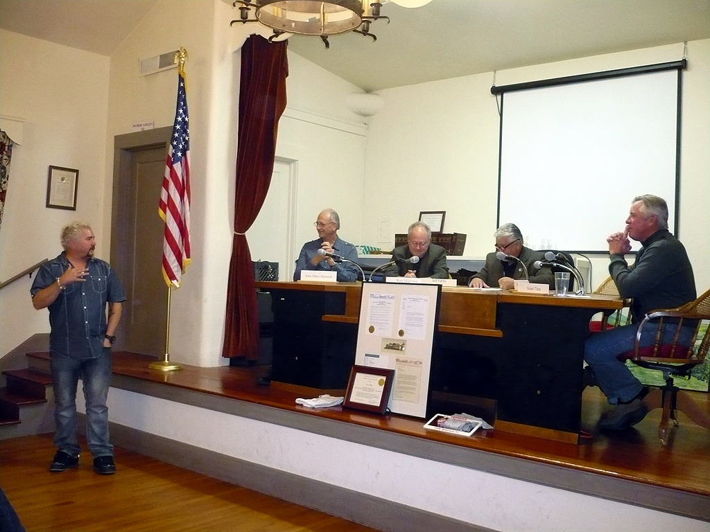 Guy Fieri receives the key to the City of Ferndale from the Ferndale City Council: L-R John Maxwell, Ken Mierzwa, Mayor Jeff Farley, Vice-mayor Stuart Titus at Ferndale City Hall at a special council meeting, 23 November 2012.